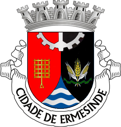 Crest of Ermesinde parish, Valongo municipality (Portugal) Made by User:Brian Boru, based on a crest of Sérgio Horta